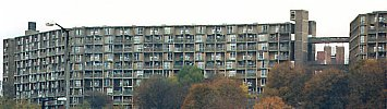 A photo of Park Hill flats in Sheffield (west face, north side)